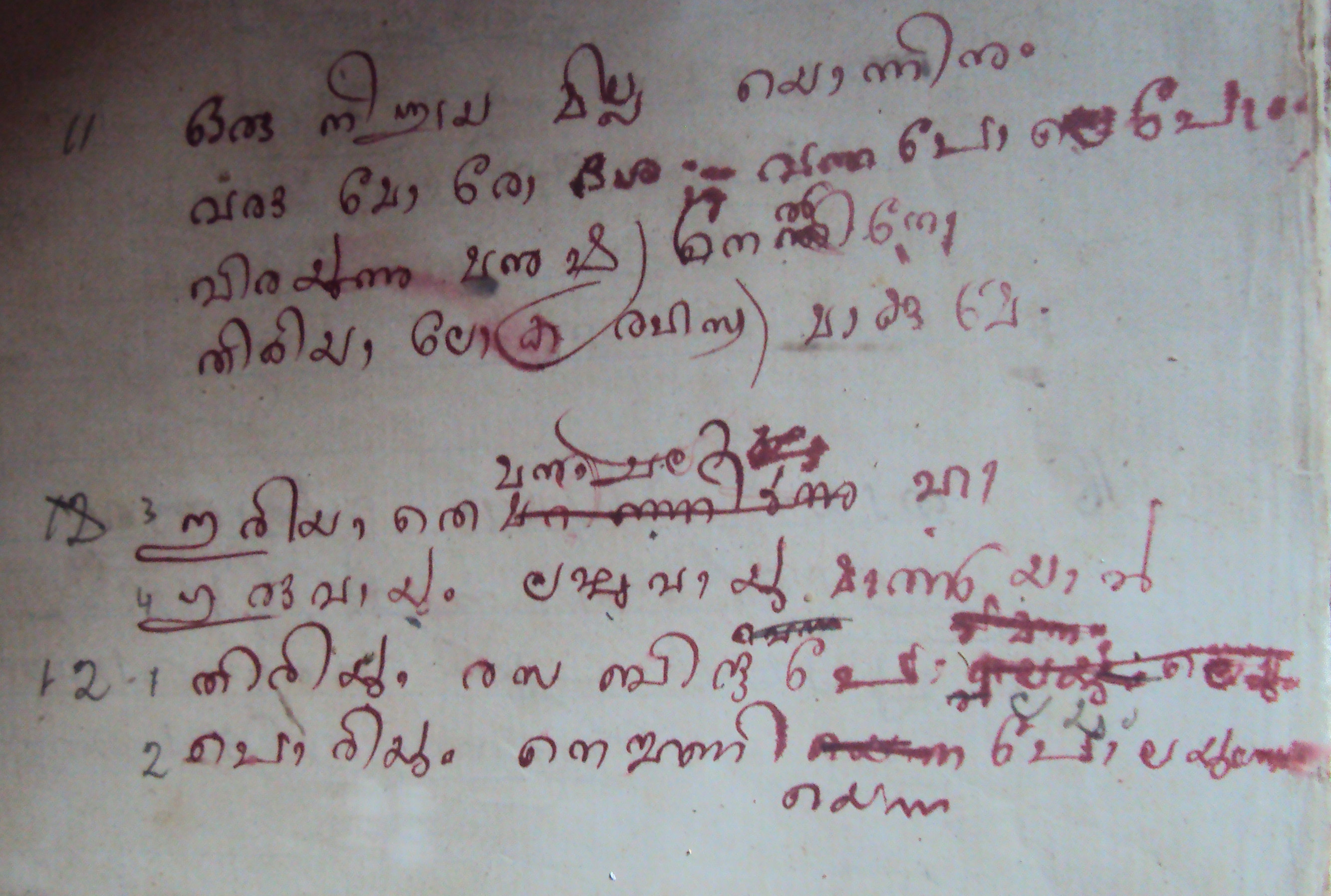 Kumaranasan - handwriting from notebooks kept at Thonnakkal museum